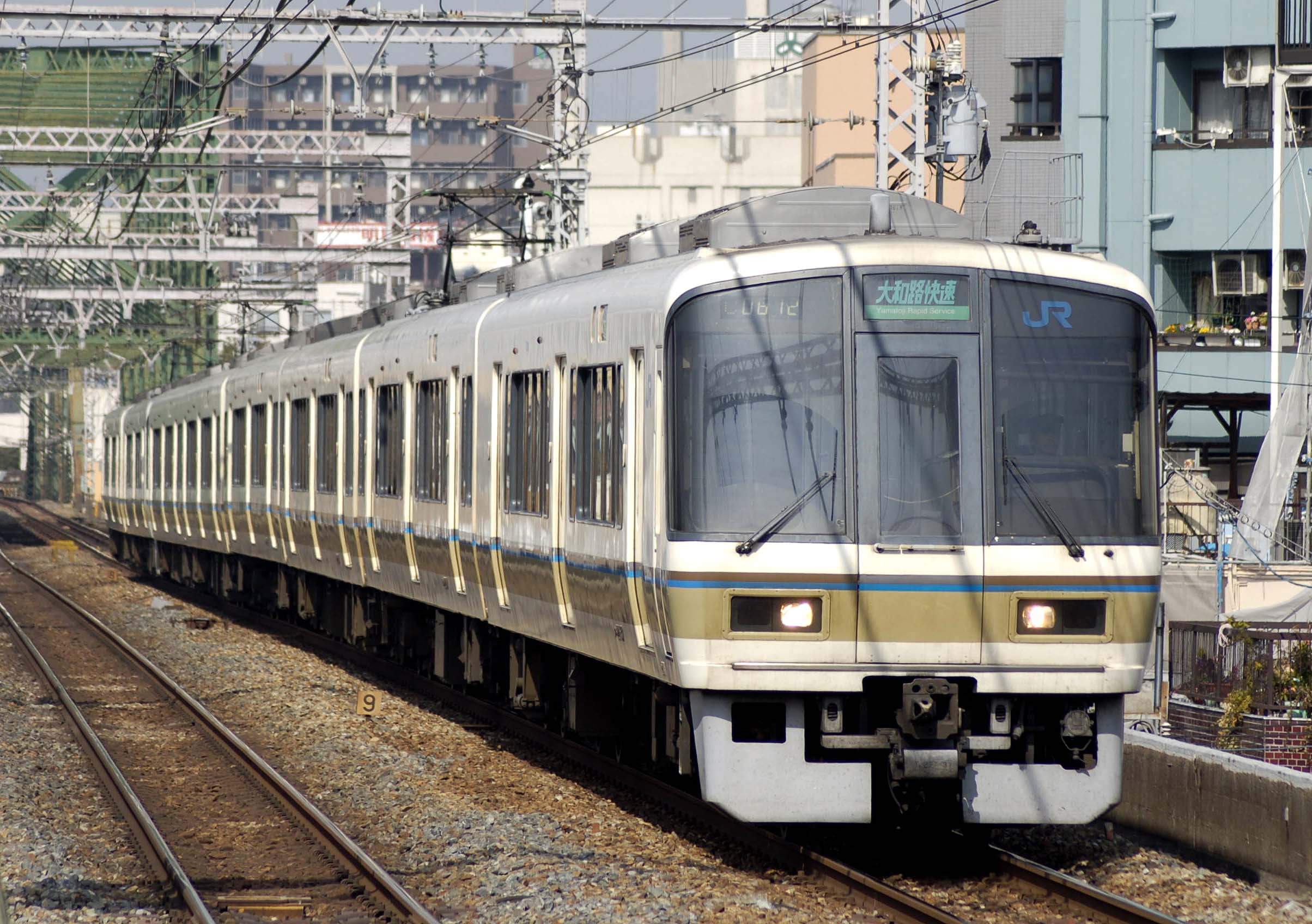 JR West 221 series EMU on a Yamatoji Rapid service